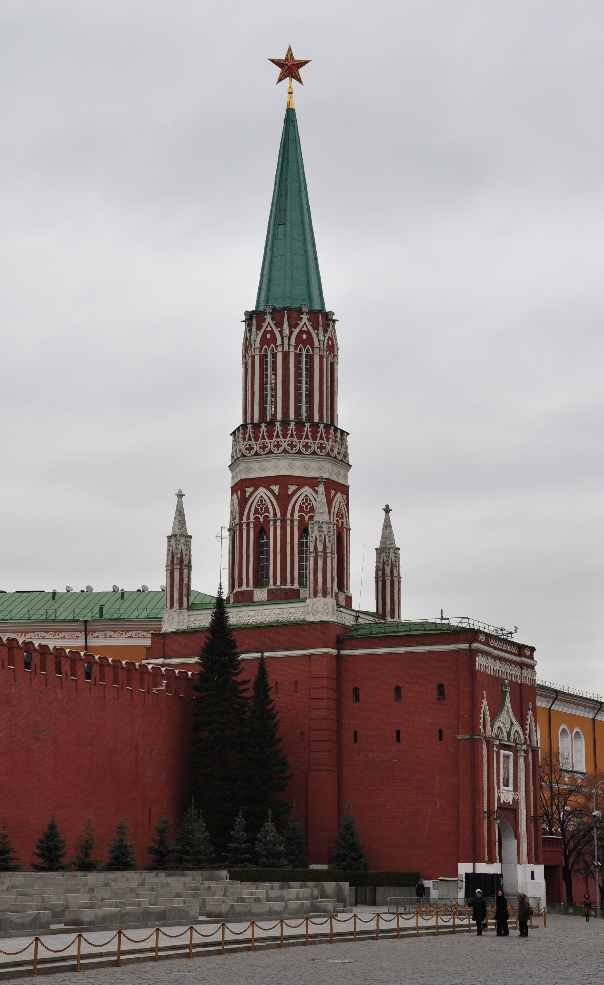 Nikolskaya Tower. Red Square's view.